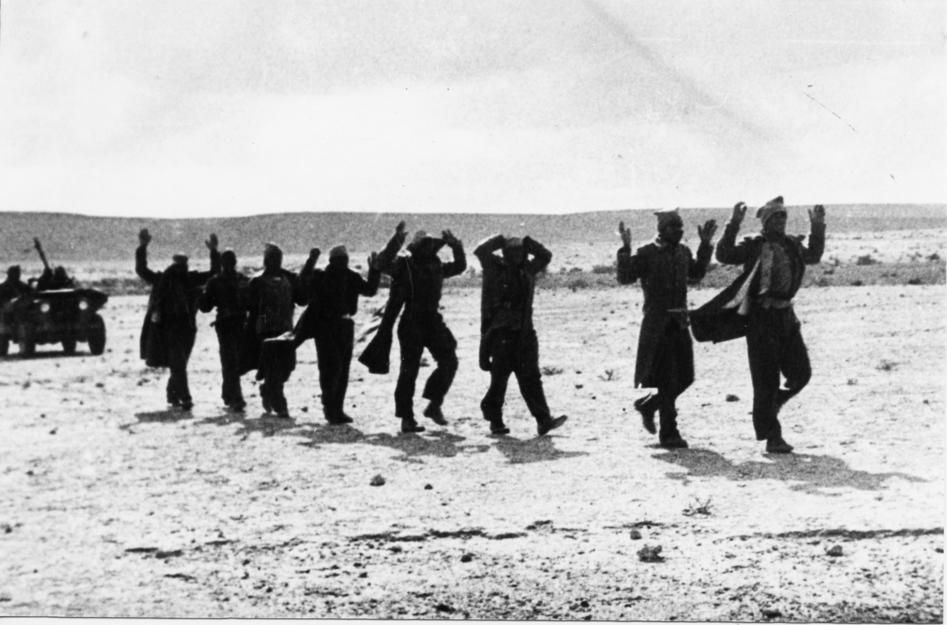 The Palmach, Israel Defense Forces